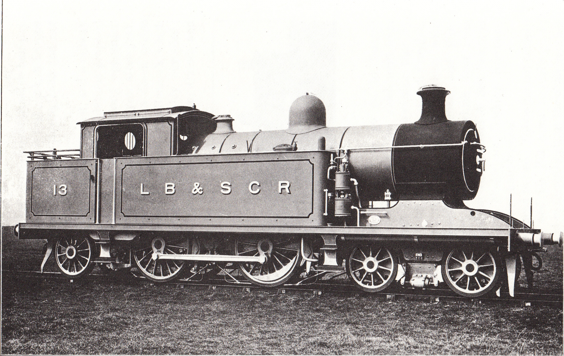 LB&SCR I2 class 4-4-2T as built